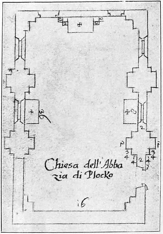 The plan of Benedictine abbay church in Płock (Poland)